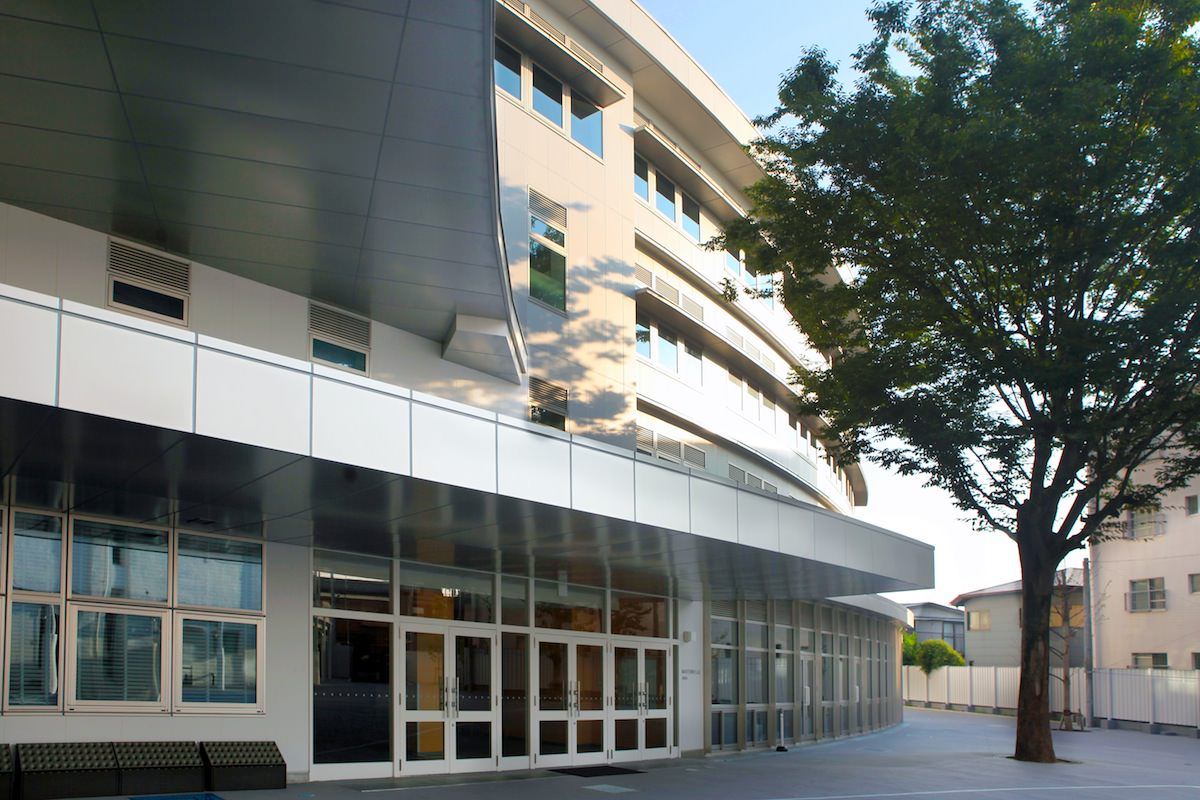 Primary building